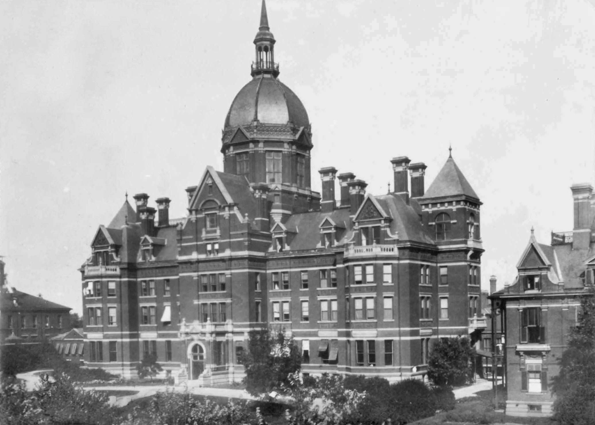 Photograph of Johns Hopkins Hospital in Baltimore during the late 19th century